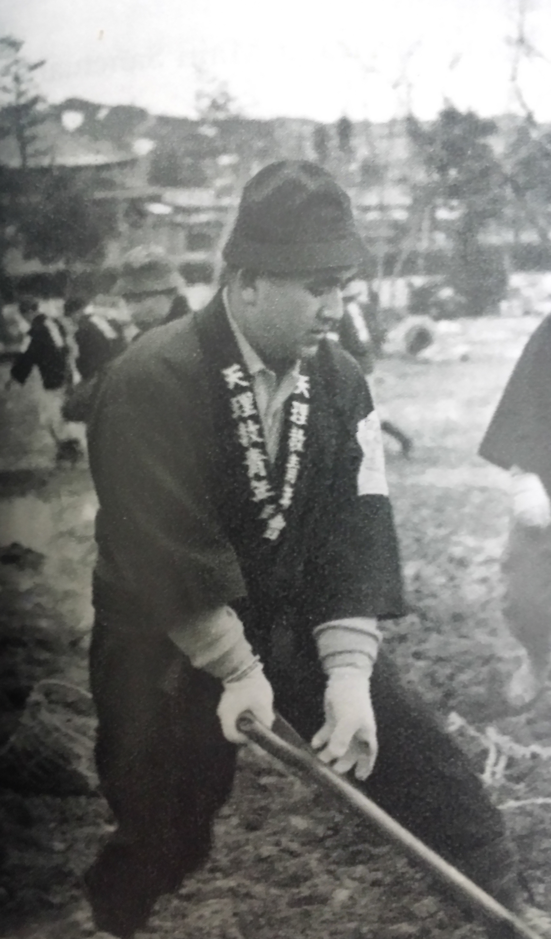 The Third Shinbashira of Tenrikyo, Nakayama Zenye, engaged in manual labor.